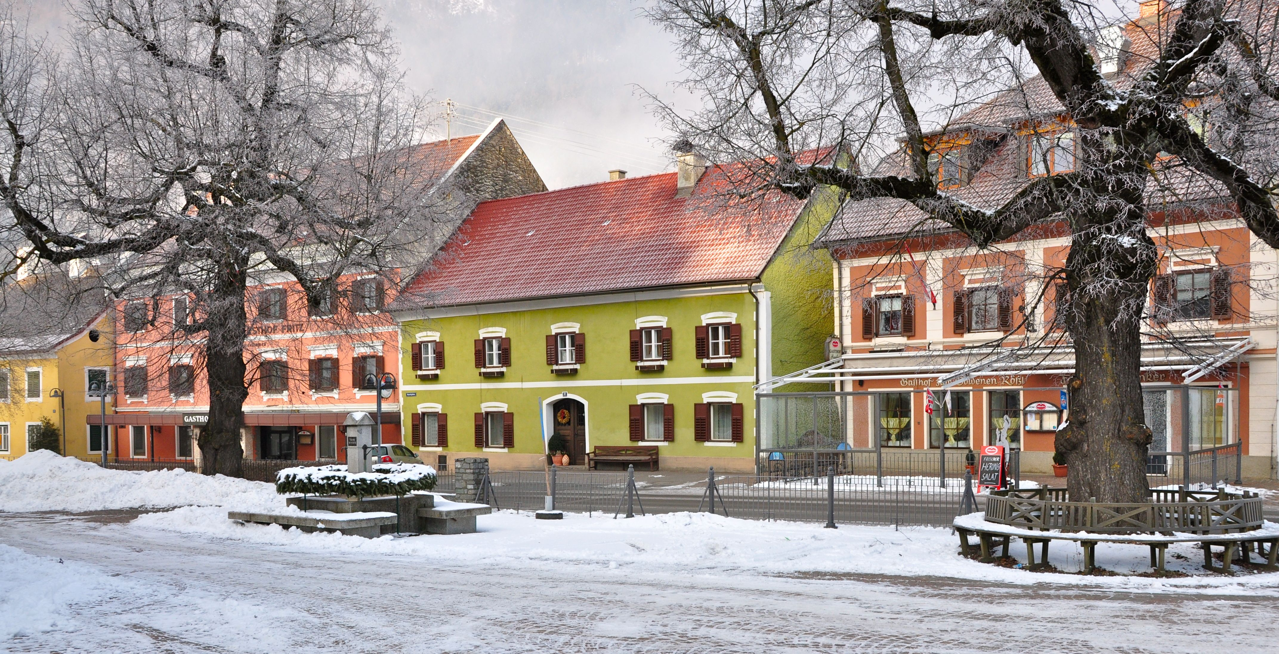 Main square of Sachsenburg, municipality Sachsenburg, district Spittal an der Drau, Carinthia, Austria